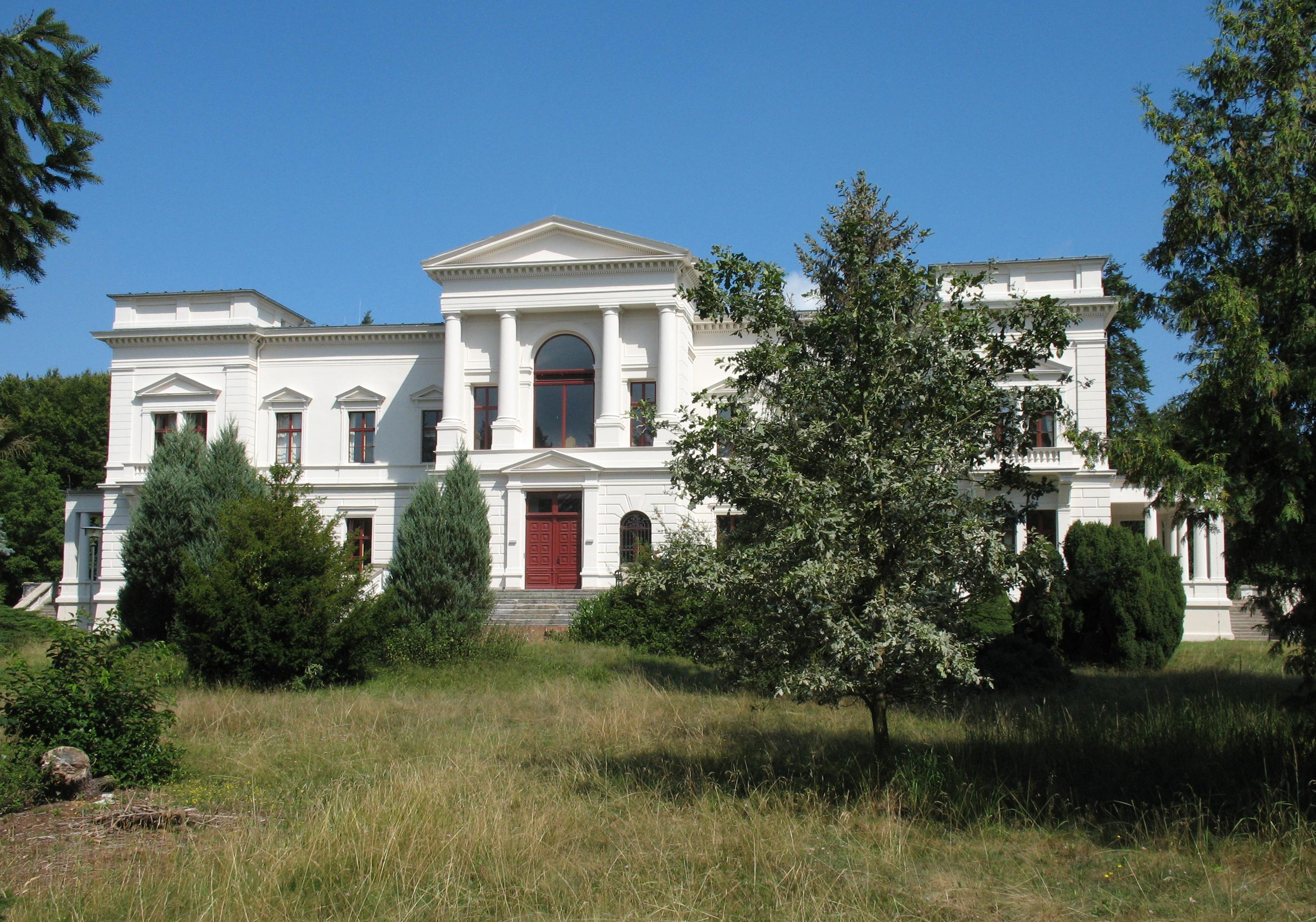 Castle Sommerswalde near Schwante (municipality Oberkrämer) in Brandenburg, Germany